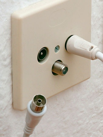 Belling-Lee-Conector by german kable-TV